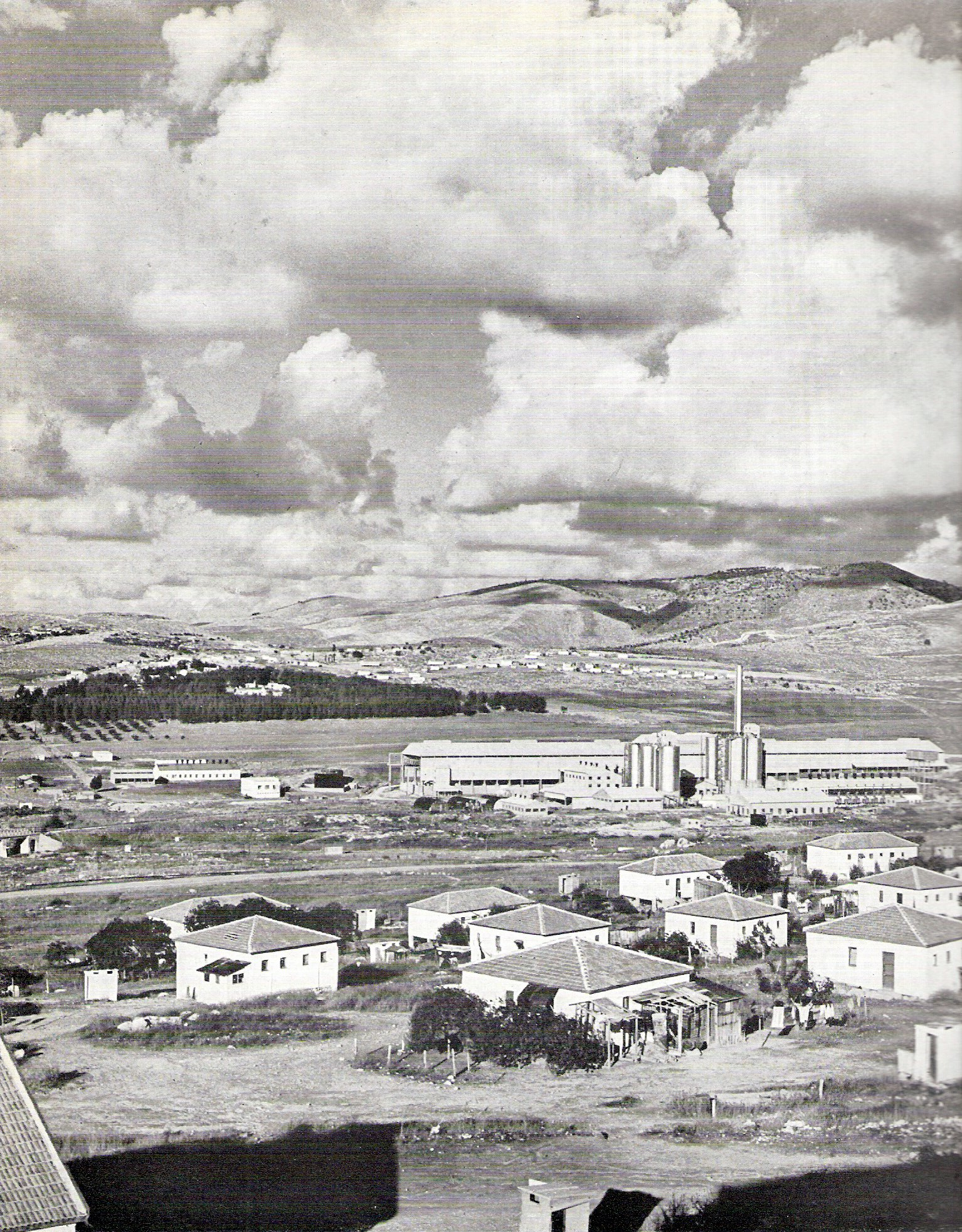 Hartuv, Shimshon cement plant and Judea mountains, Israel